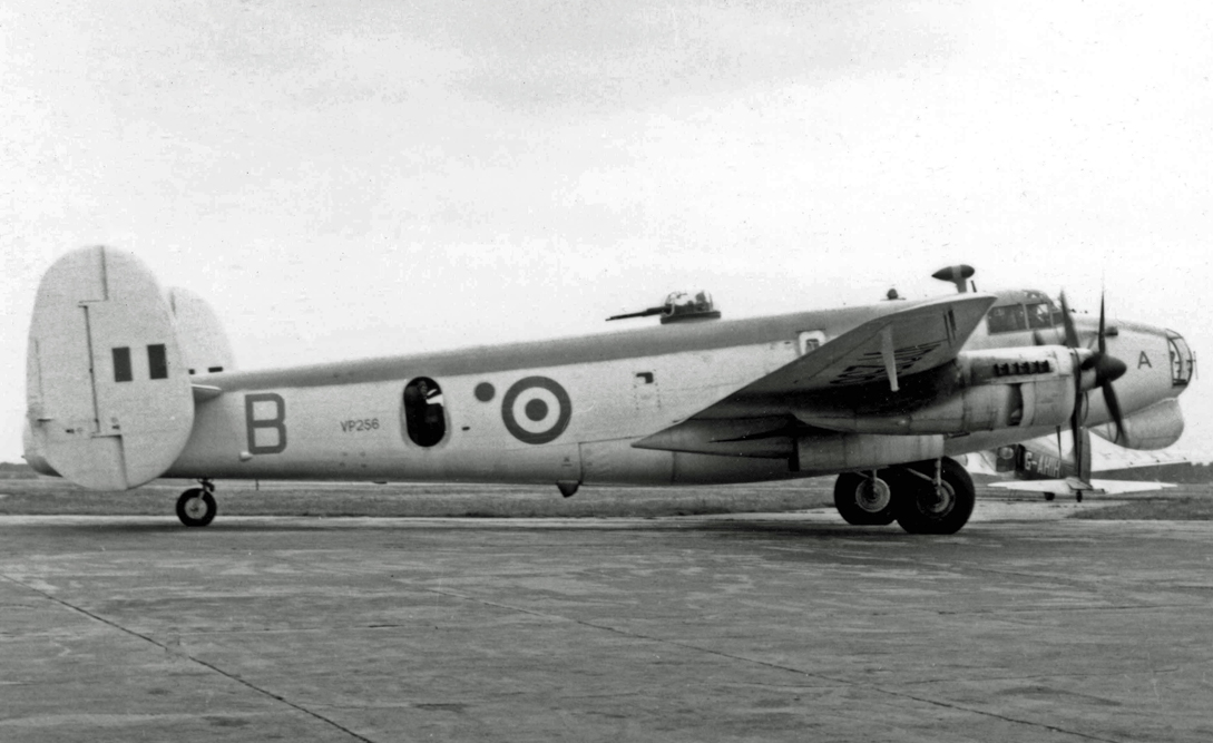 Avro 696 Shacleton MR.1 VP256 of 269 Squadron RAF Coastal Command in 1953